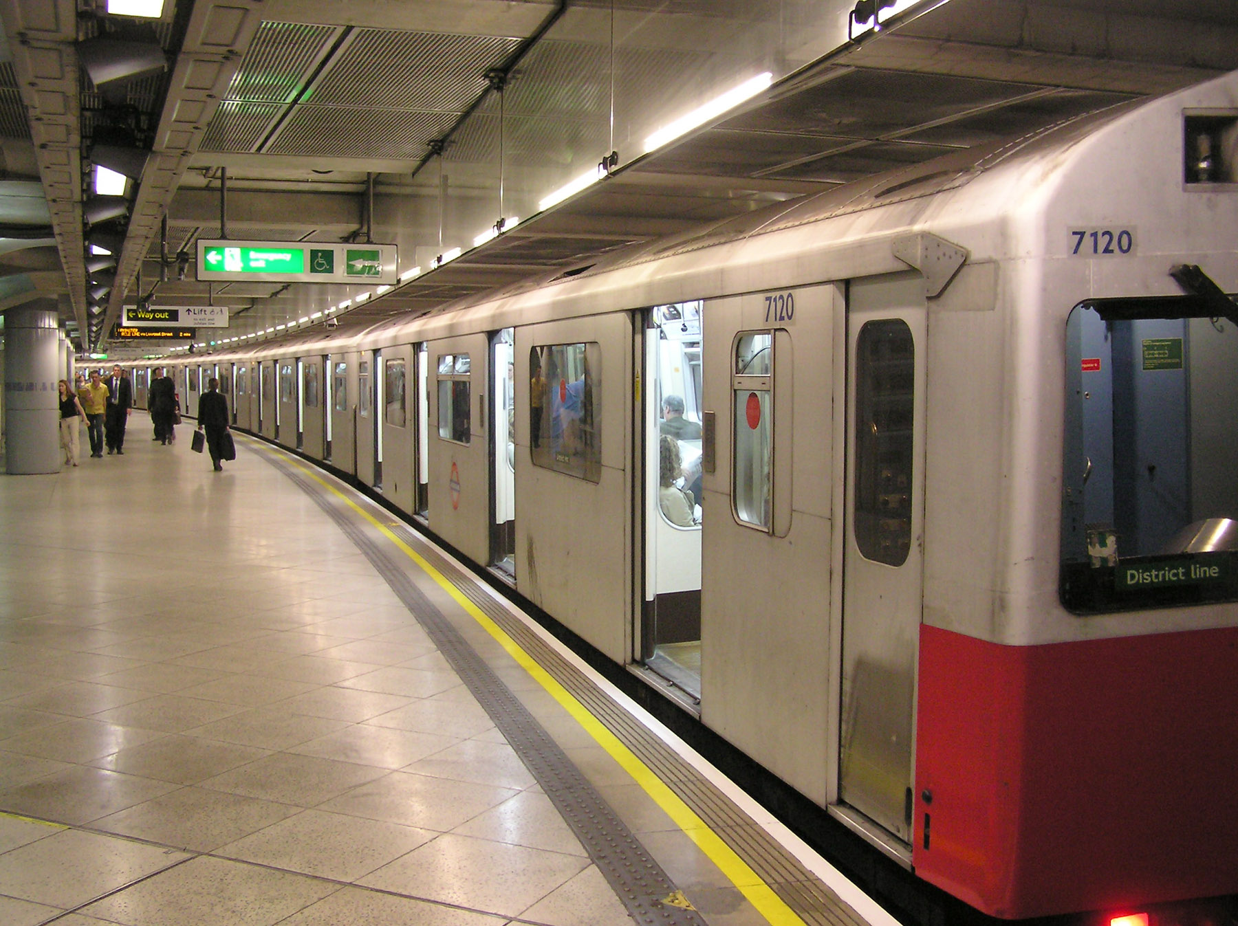 The District Line platform of Westminster tube station, London, England.